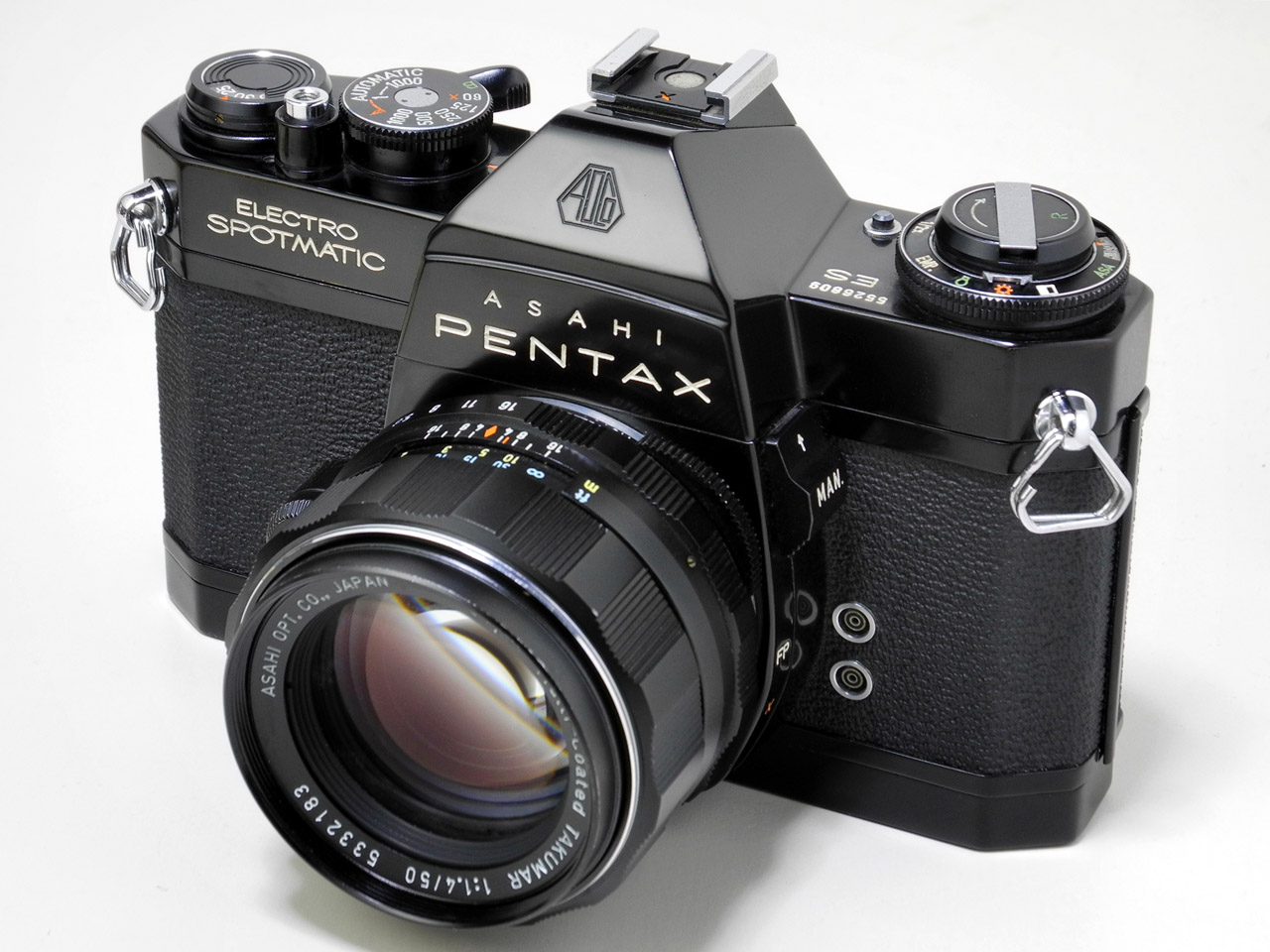 Pentax ES w/50mm f/1.4